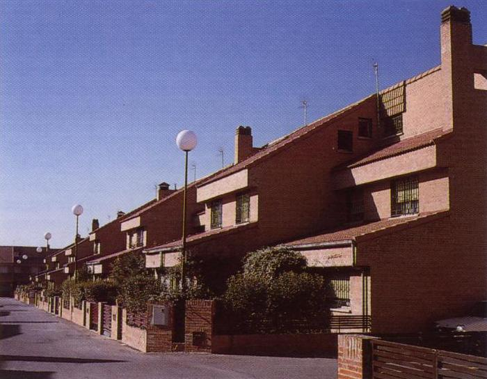 Leaned houses of the Sector III, Getafe, (Madrid), Spain Author: Miguel303xm Date: May 12th, 2005 Place: Leaned houses, Getafe, Madrid, Spain